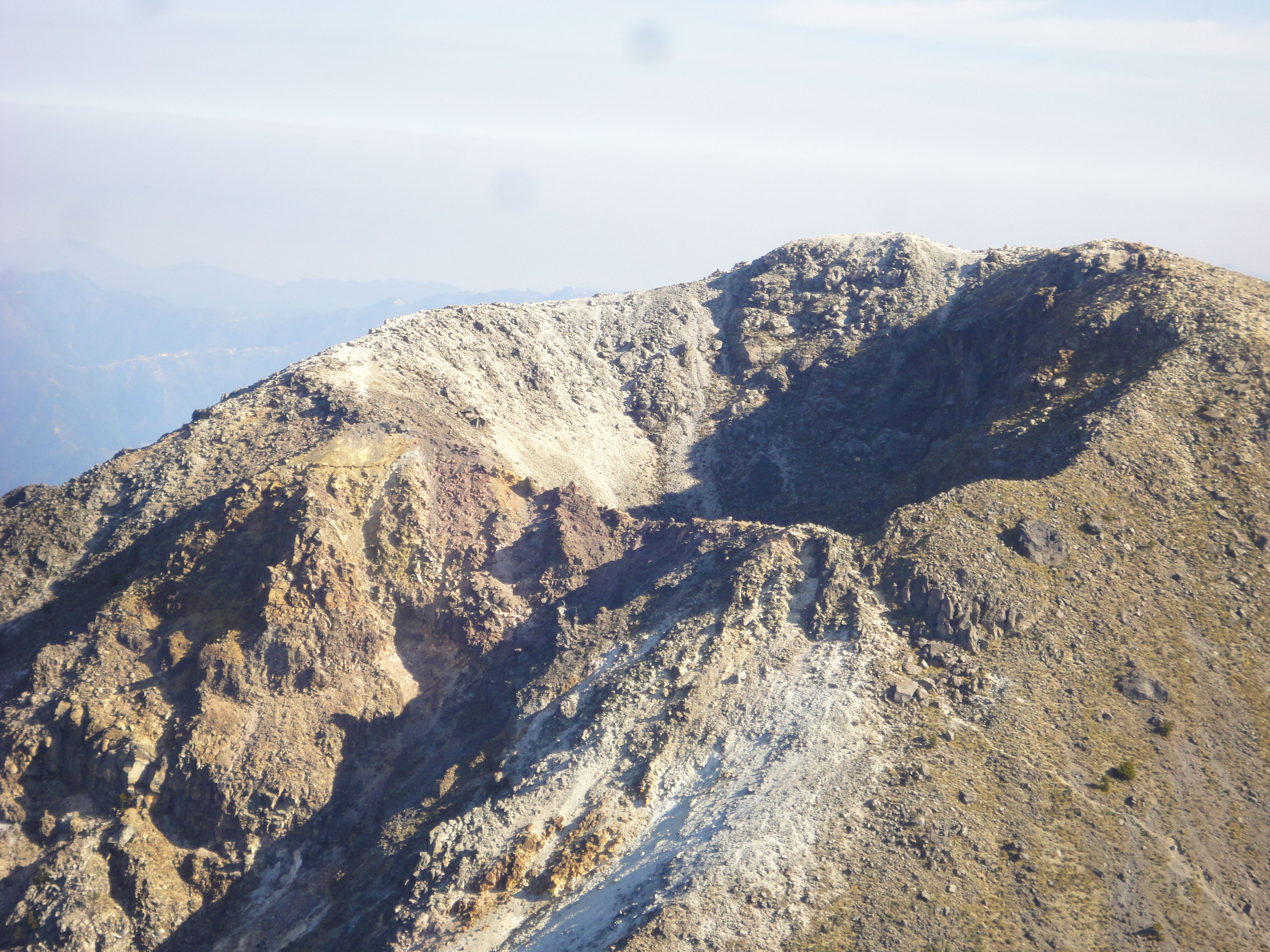 Photo of the south side of the volcano